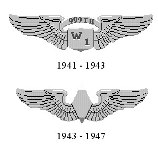 WASP Pilot Badge